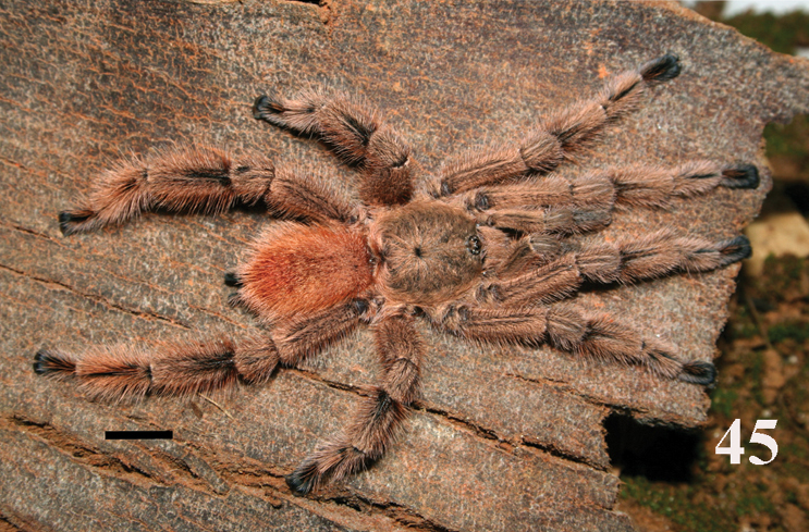 Pachistopelma rufonigrum male. Scale bar = 10 mm.